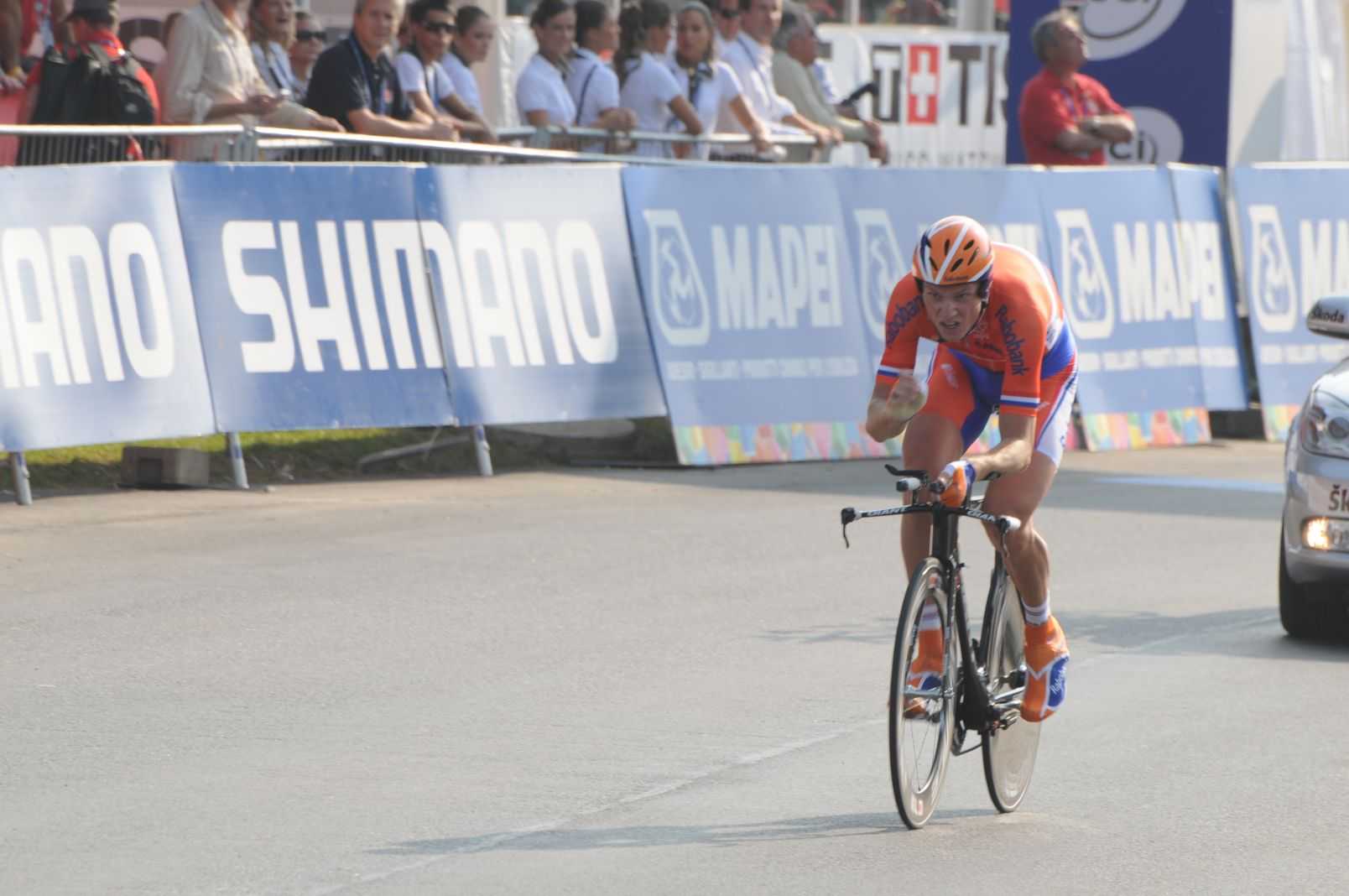 Lars Boom at UCI World Championships in Mendrisio, Switzerland